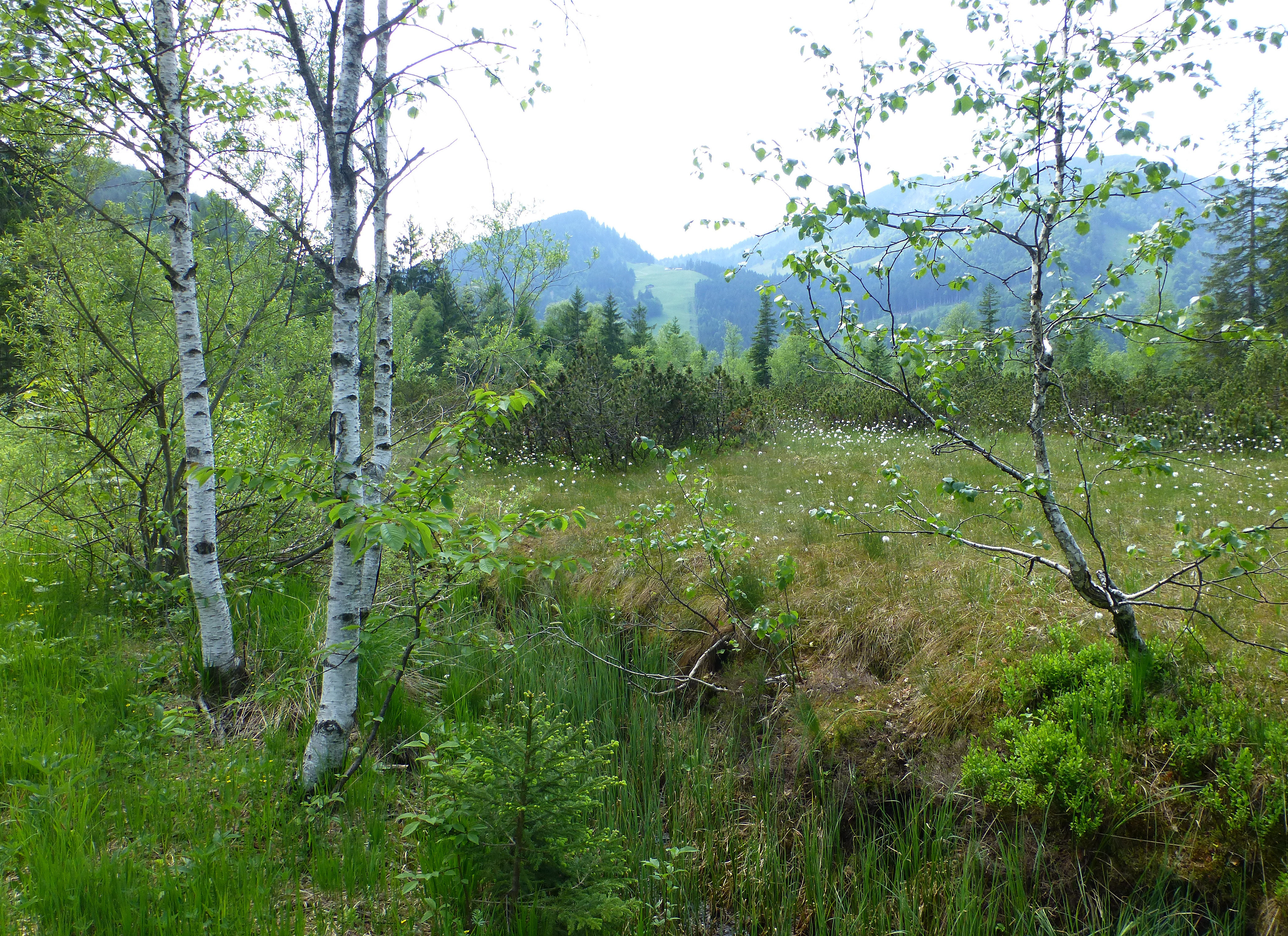 Mäander Hochmoor in Hey Valley, Unken, Salzburg (state), Austria This media shows the Geschützter Landschaftsteil in Salzburg with the ID GLT00012.